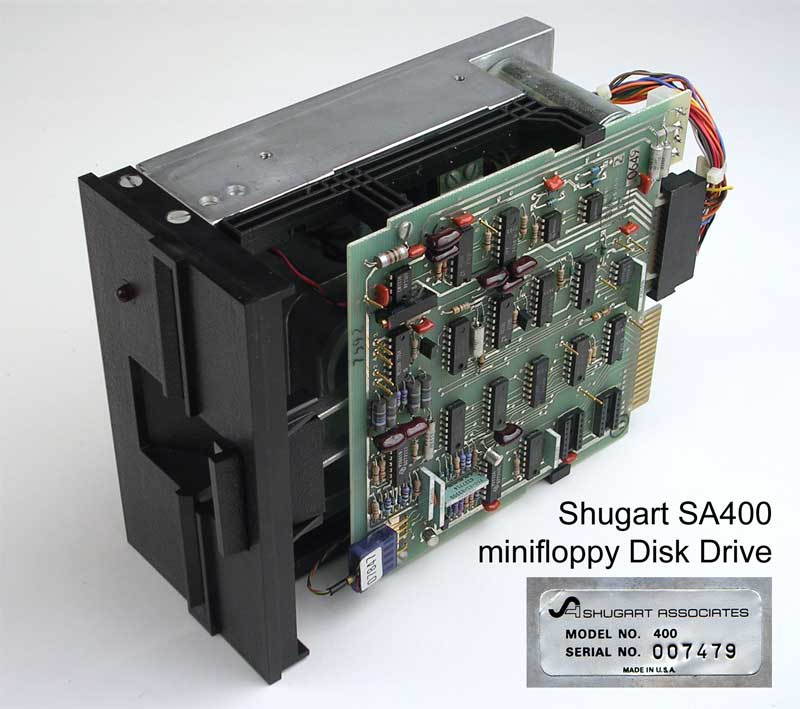 Shugart SA400 minifloppy Disk Drive. Introduced in late 1976, this was the first 5 1/4 inch floppy drive. The drive was single sided with 35 tracks and held about 90k bytes of data. The SA400 cost $425 (~$1,532 in 2007 dollars).